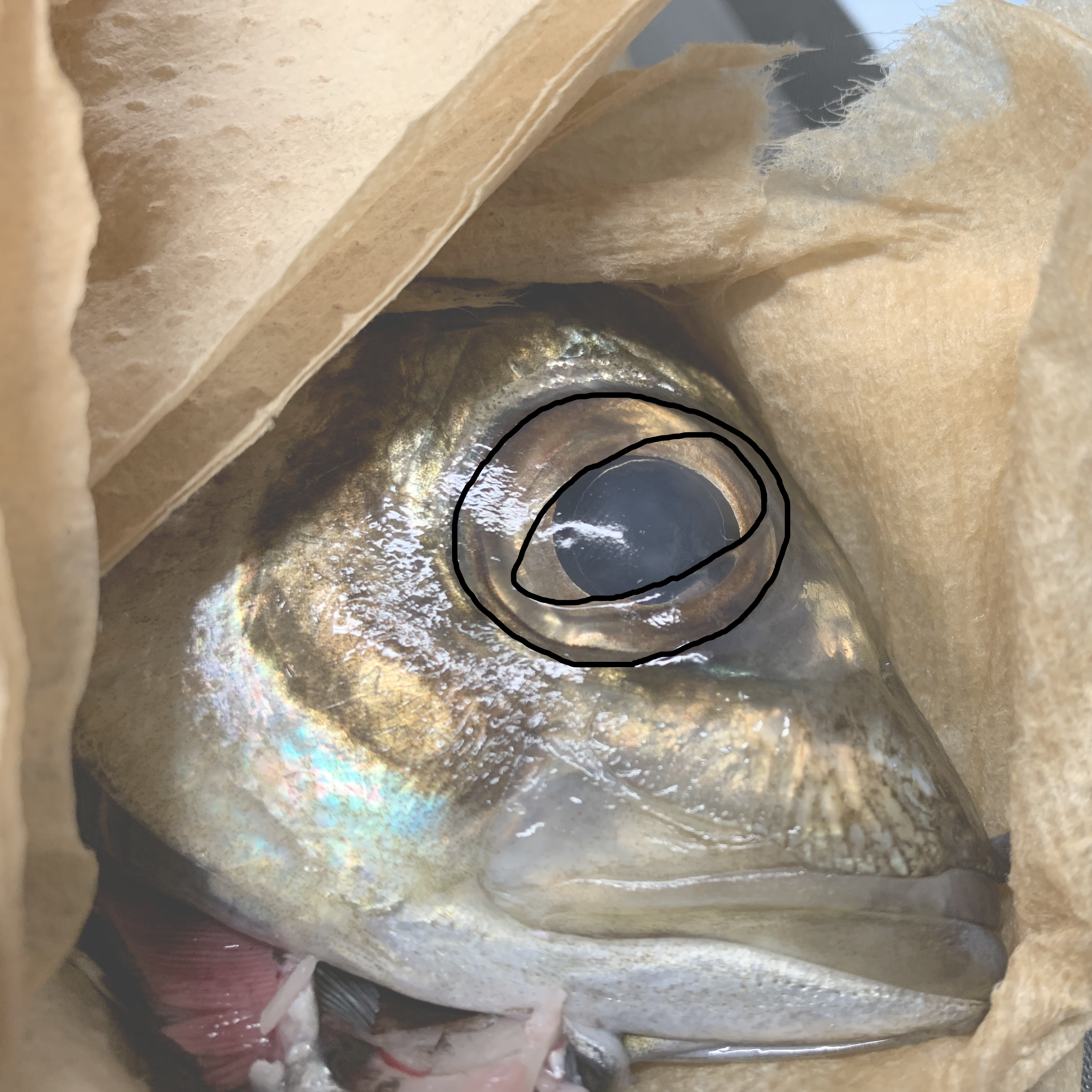 Trachurus japonicus, Note the adipose eyelid (traced with black line). Based on Trachurus_japonicus_eye.png